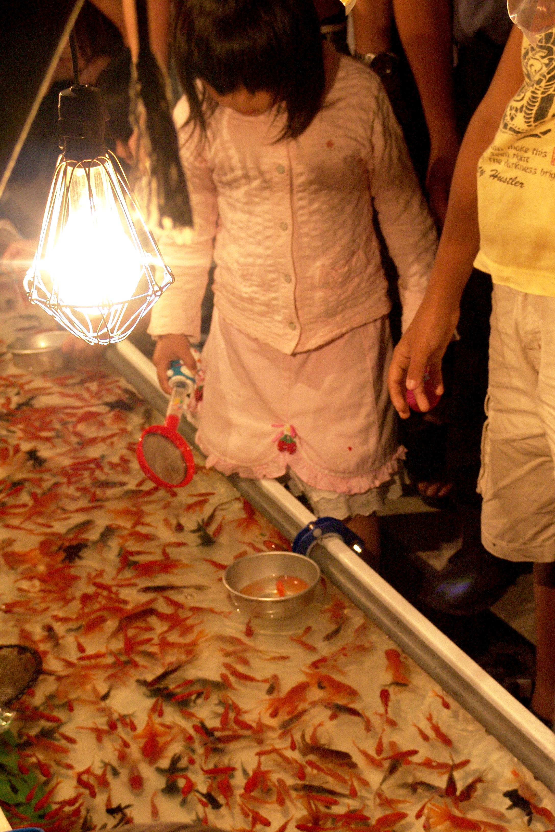 Goldfish scooping game. (Sensitive film mode.)